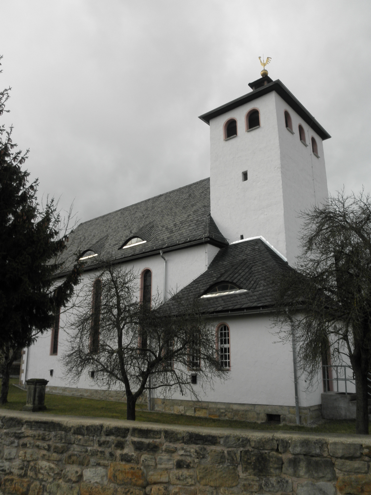 Church in Volkstedt (Rudolstadt) in Thuringia